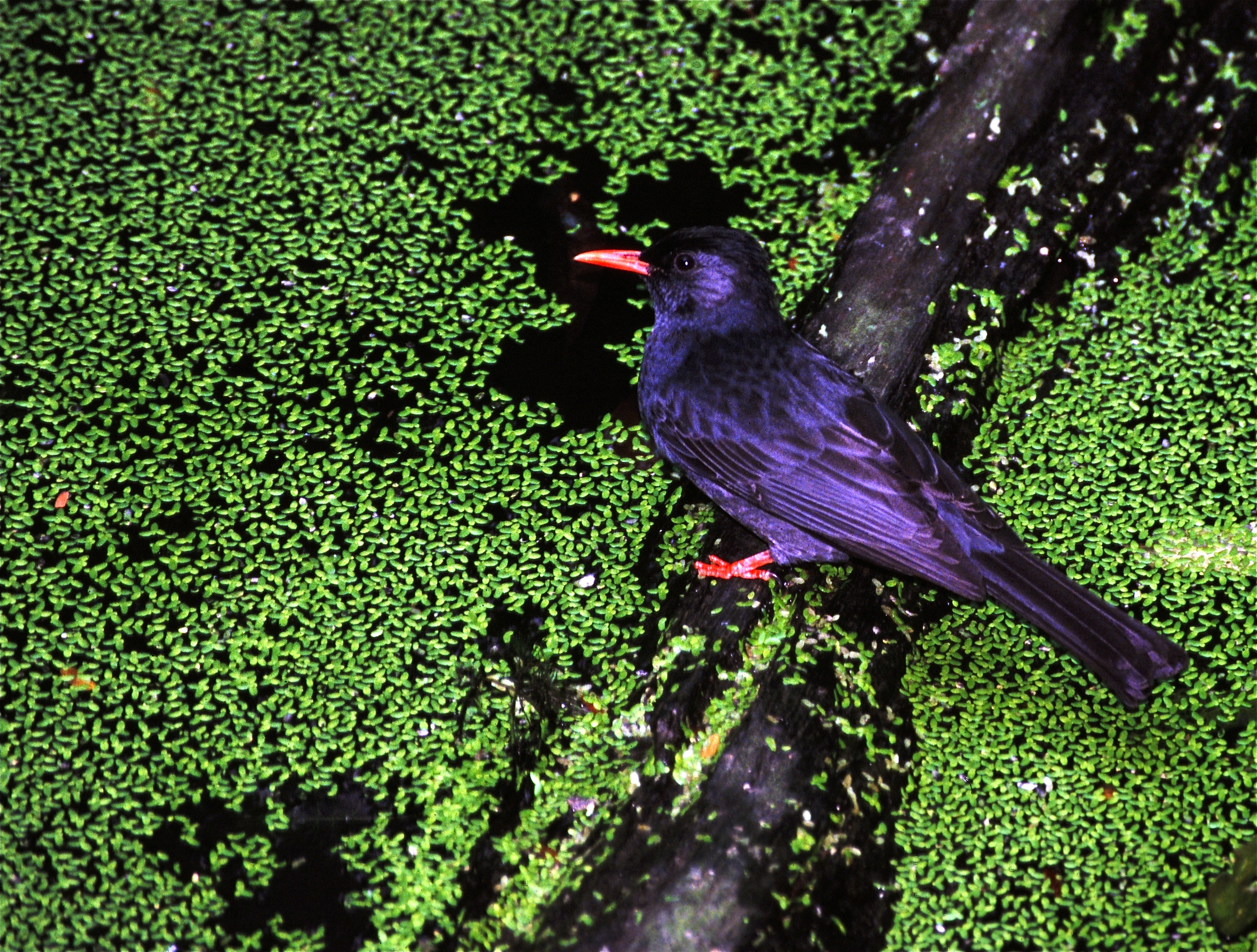 Zoo, Bangkok, THAILAND Scanned Slide from 2003